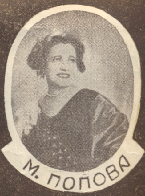 Portrait of the Bulgarian actress Marta Popova (1891-1974) on a poster "Bulgarian scenic art 1900-1932"